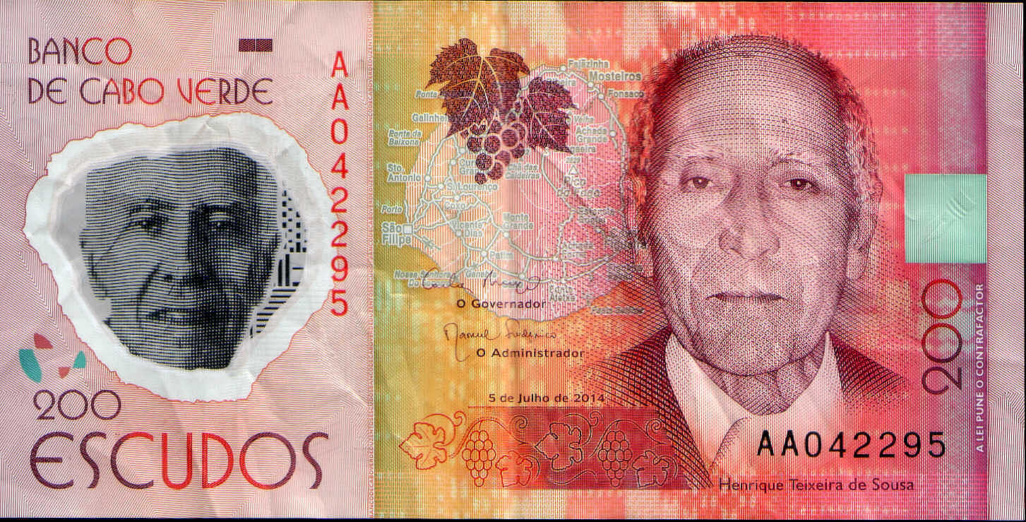 200 Escudos from Cape Verde, Decembre 2014, front, "plastic", Henrique Teixeira de Sousa